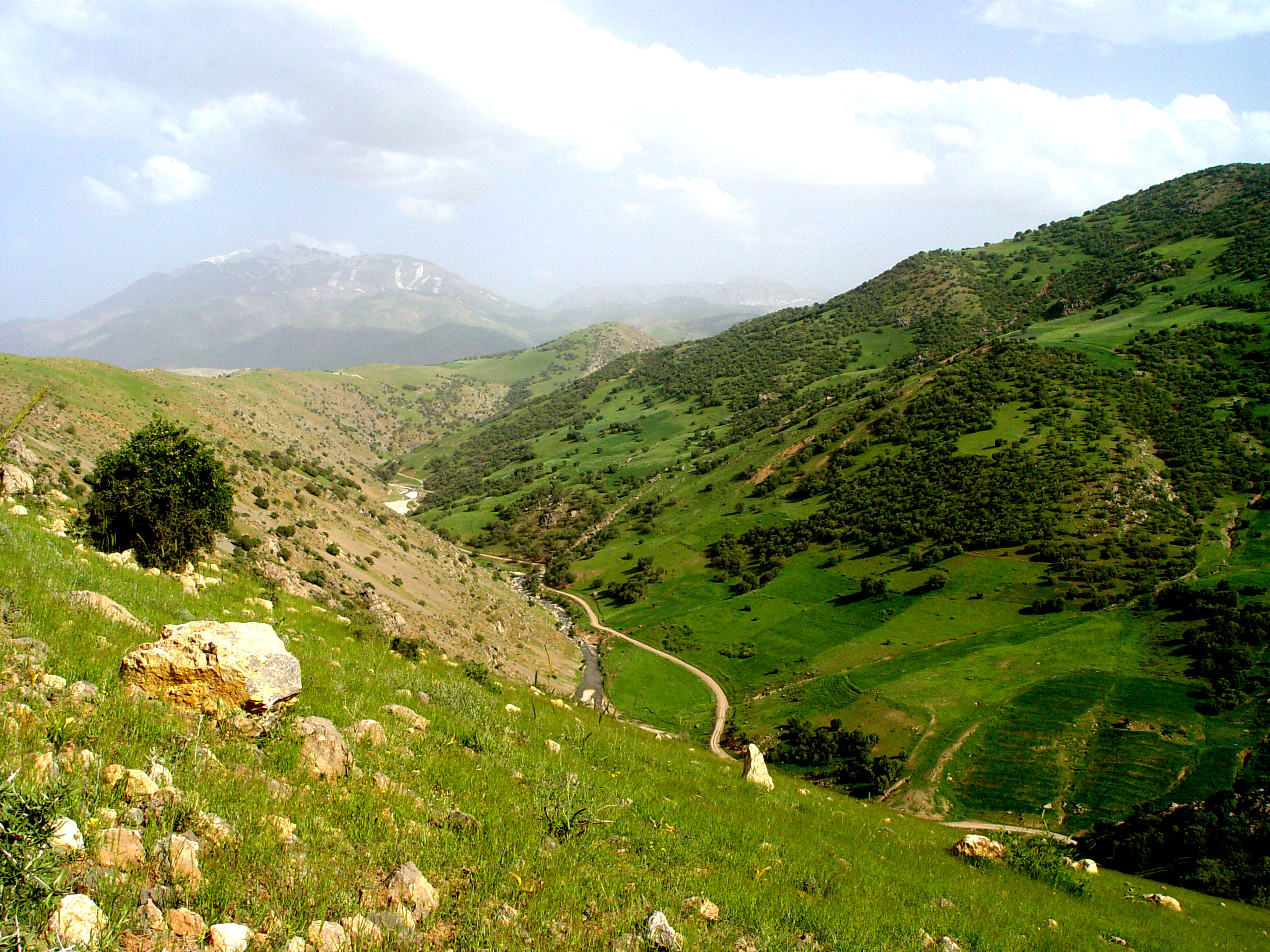 Skirt Of Oshtorankuh , Azna , Iran